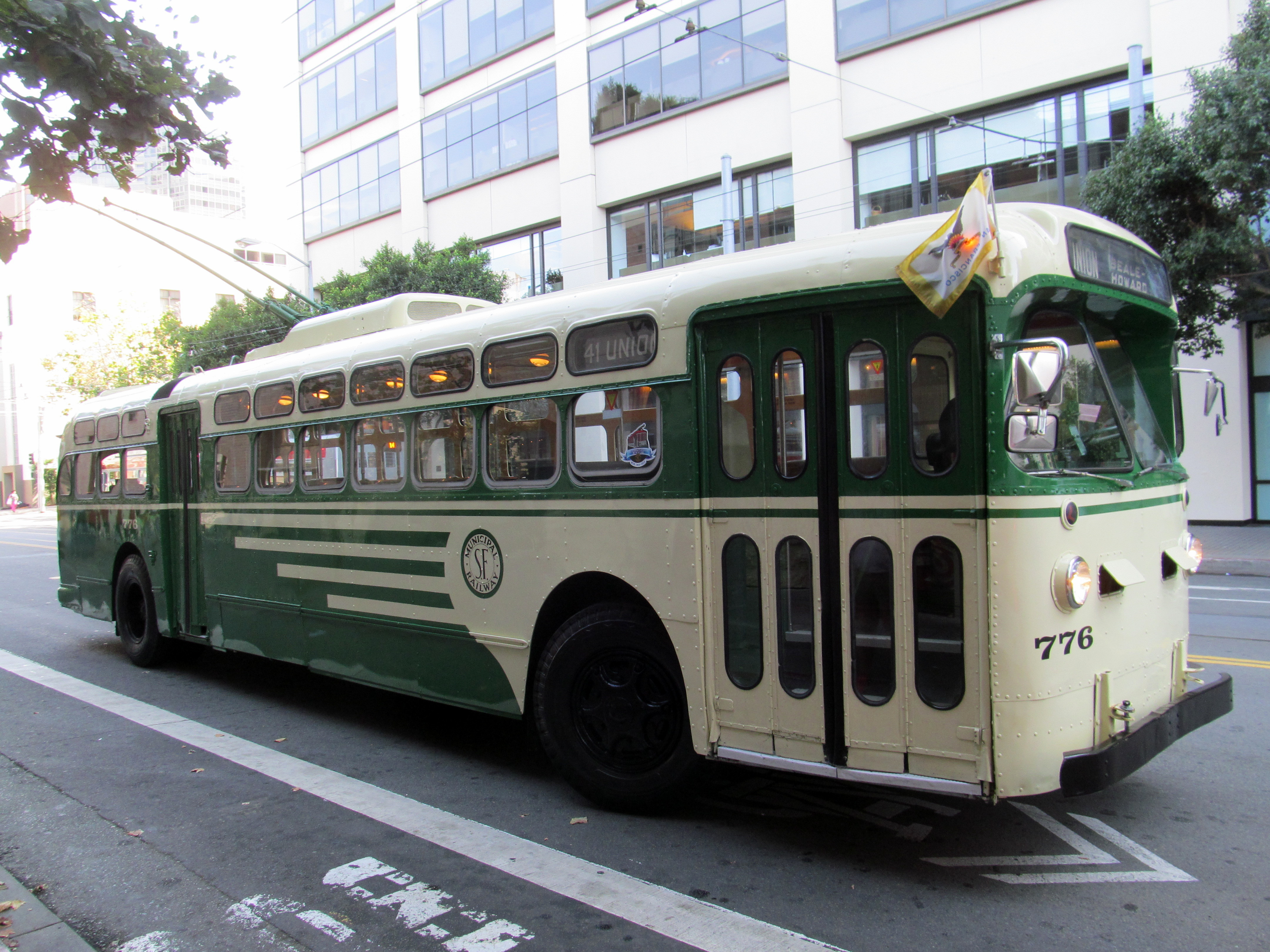 Muni 776 on display during Heritage Weekend in September 2017